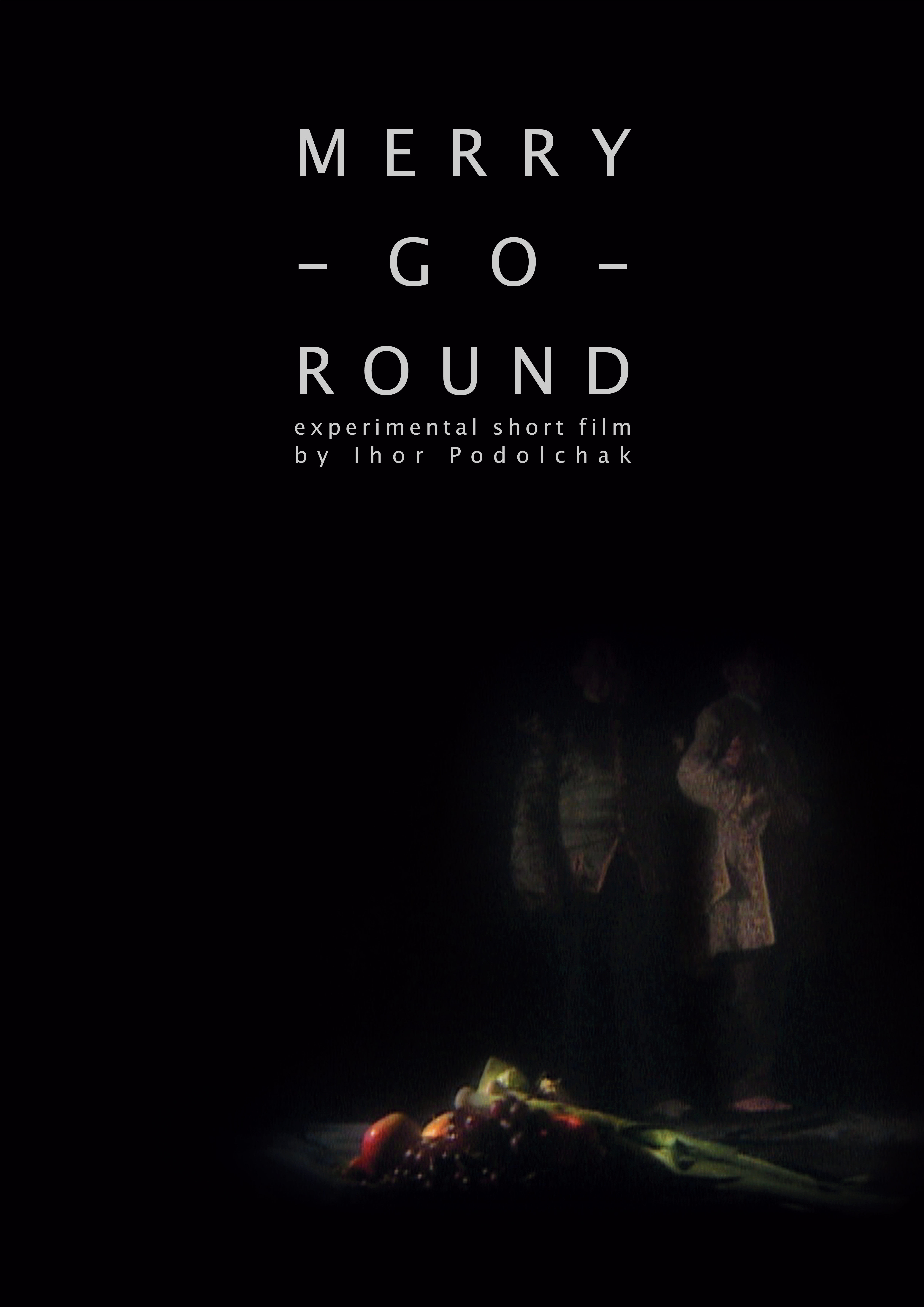 Poster for Merry-Go-Round, short movie